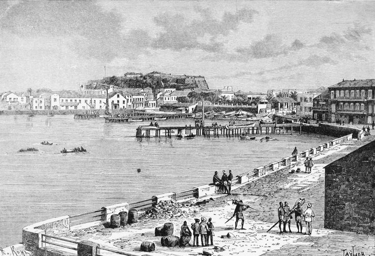 Goree-landing stage and fort